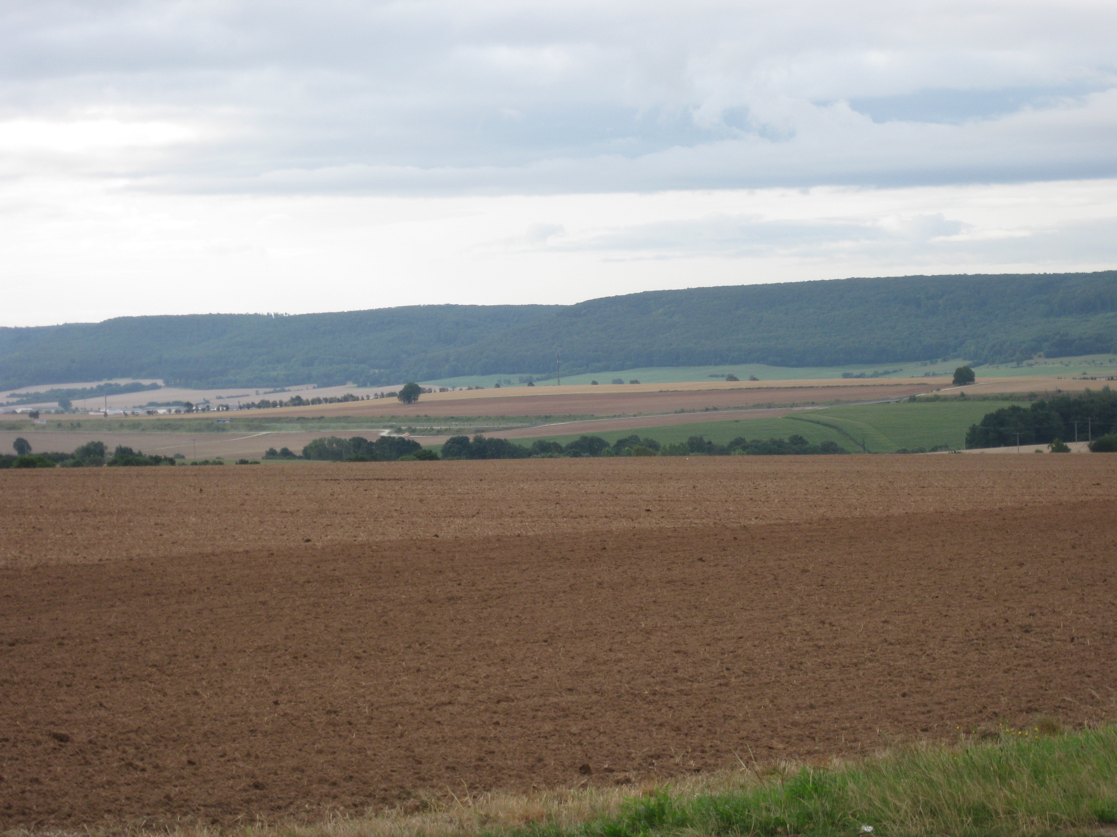 Eichsfelder Landschaft (Dün)